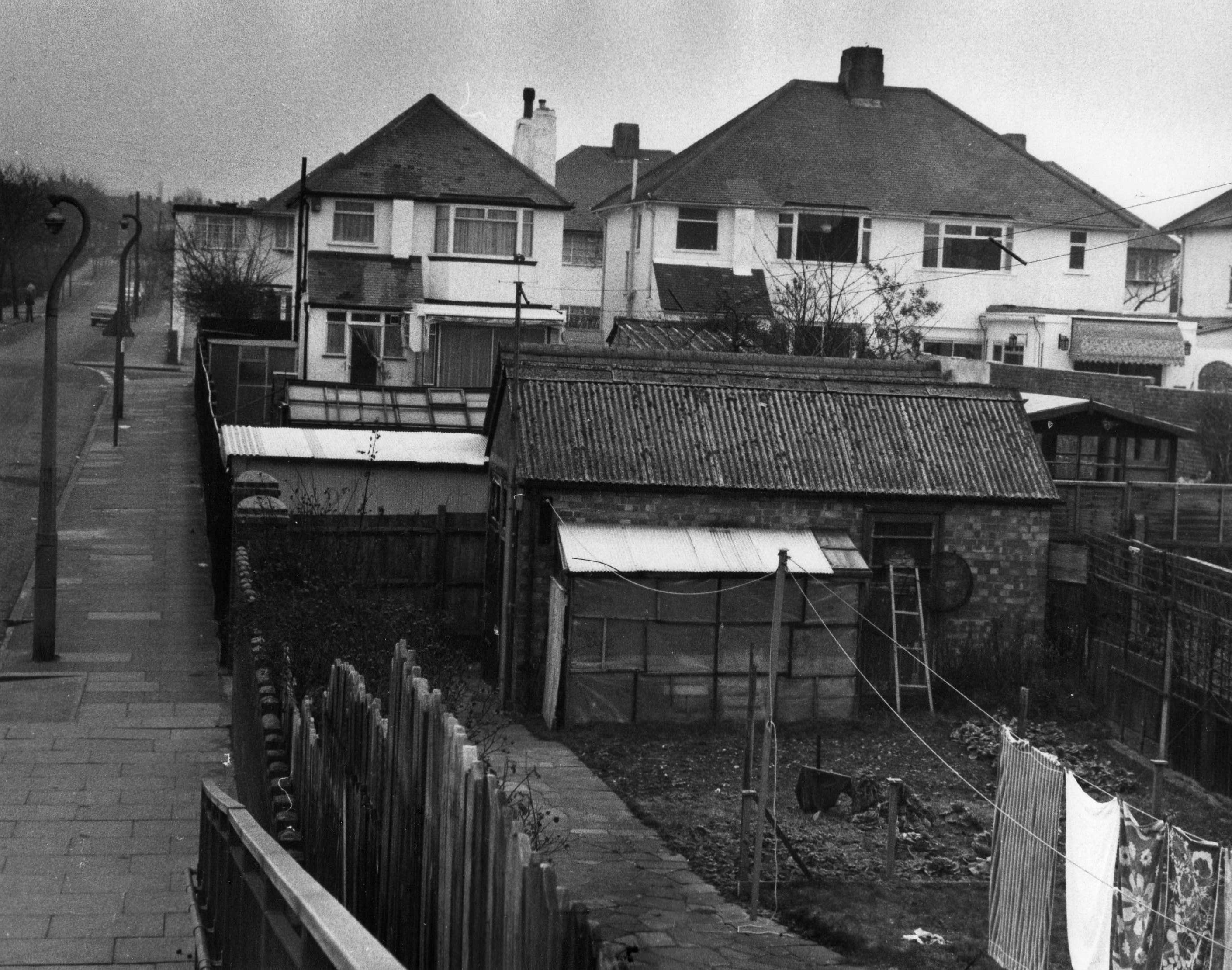 Houses and yards somewhat near Rochester Way in Kidbrooke, London.